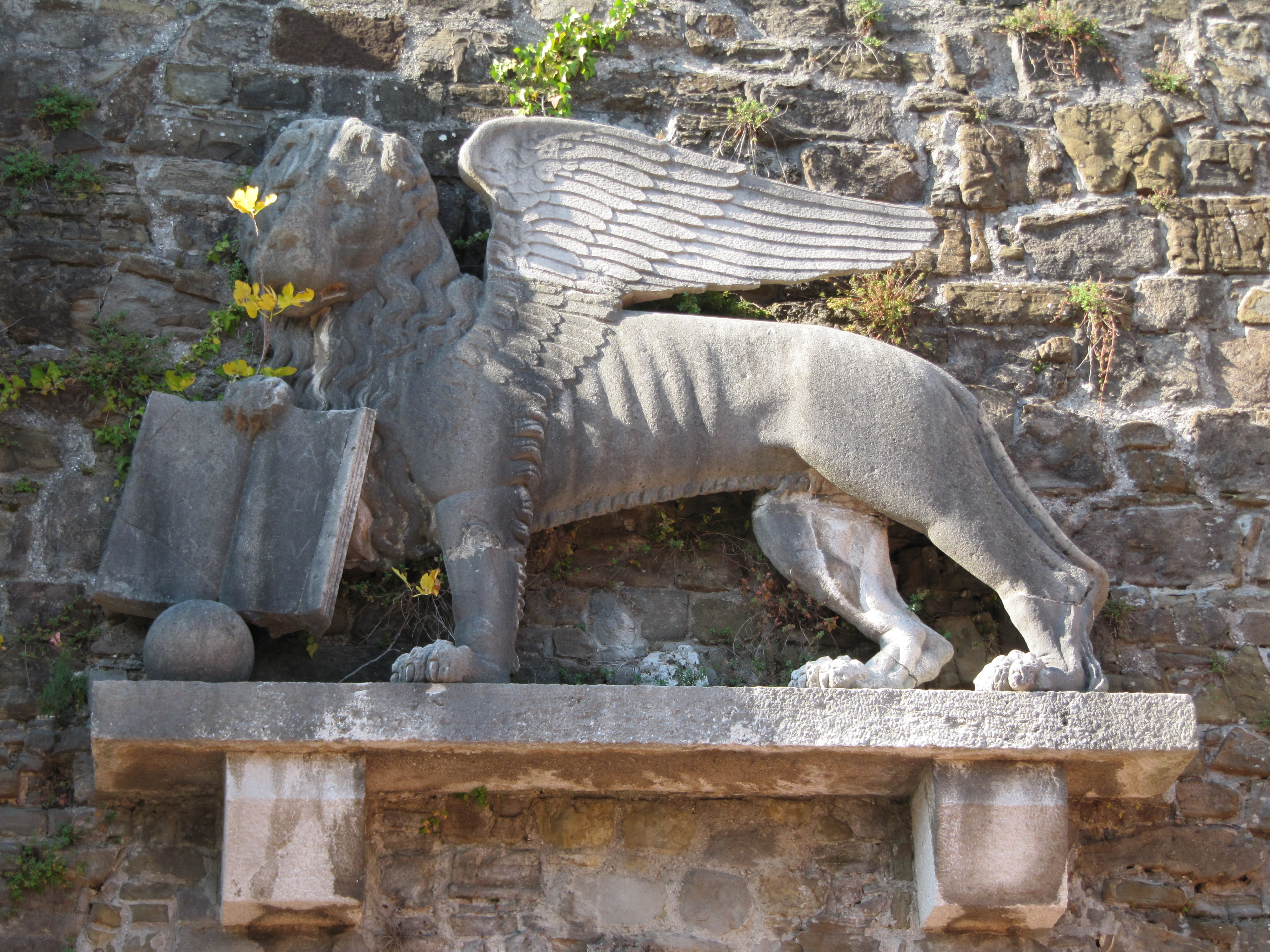 Lion of Saint Mark of Venice with open book in Gorizia, Italy.